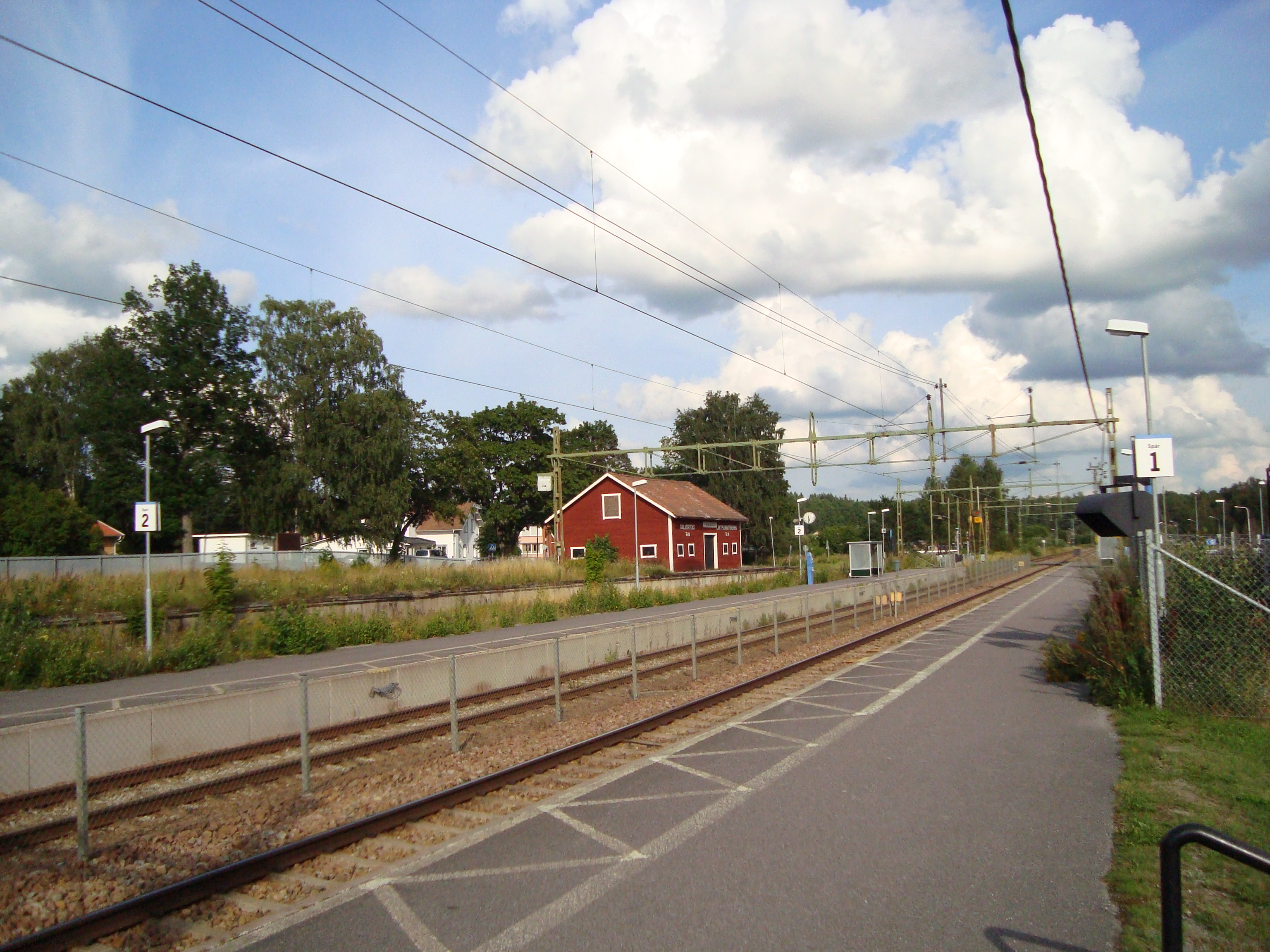 Railroad platform (former station) of Morgongåva, Heby Municipality, Sweden